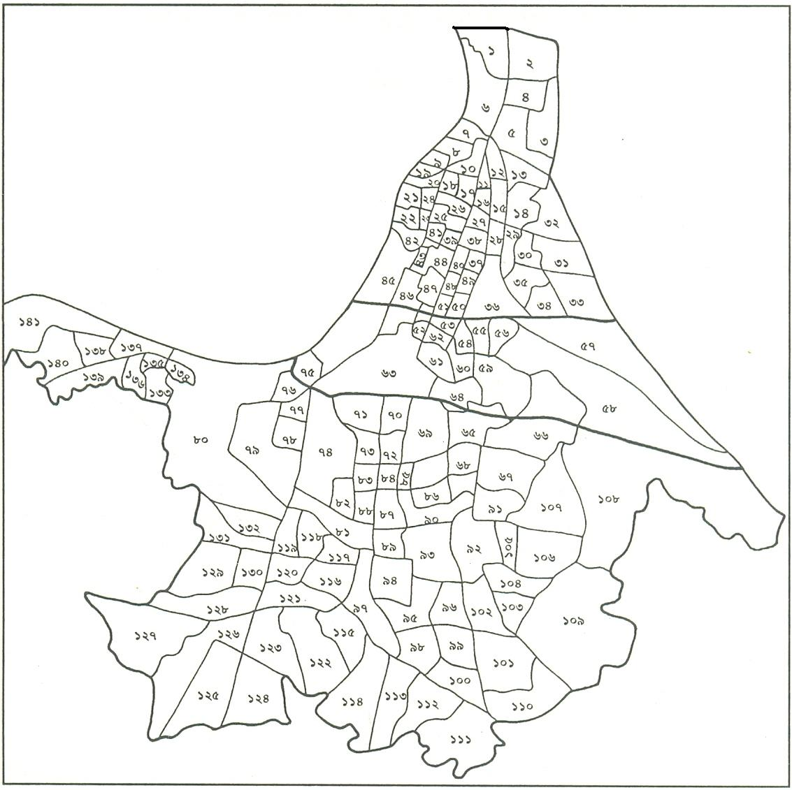 Ward Map of Kolkata Municipal Corporation in Bengali.